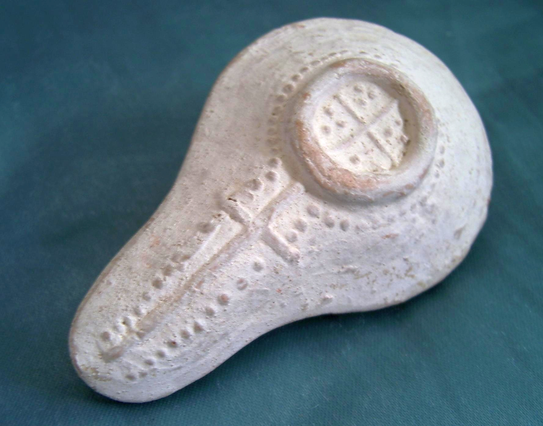 roman Oillamp, around 200 A.D., underside